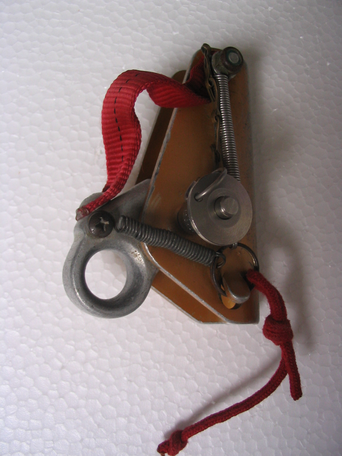 Alan Silva Collection 2004, 1978 Gibbs Ascender